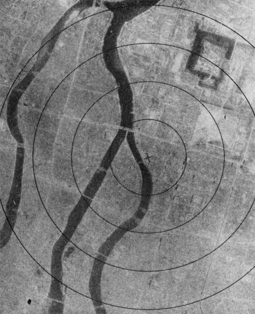 Hiroshima after bombing. Area around ground zero. 1,000 foot circles.